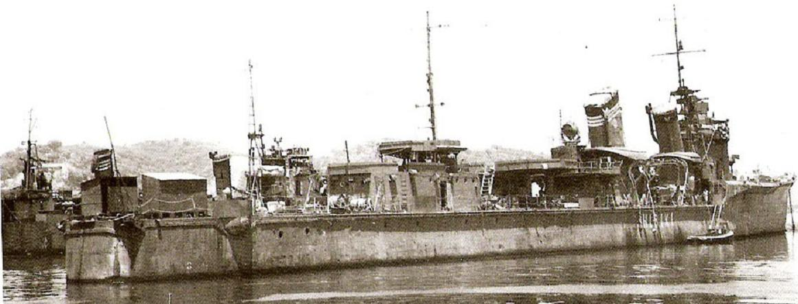 This image of the Imperial Japanese Navy destroyer Hibiki (Fubuki-class type-III or Akatsuki-class) in Yokosuka, is believed to be copyright-free, as it is a Japanese photograph older than 50 years. If copyright exists in this image, use here is asserted to be fair use.